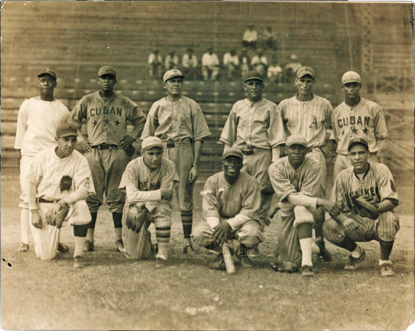 Large 1932 team photograph of what appears to be an all-star type assemblage of various players on various teams including Chucho Correa, Rogelio Alonzo, Eugenio Morin, Joseito Rodriguez, Lazaro Salazar, Oscar Rodriguez, Cheo Ramos, Cando Lopez and Francisco Quevedo.